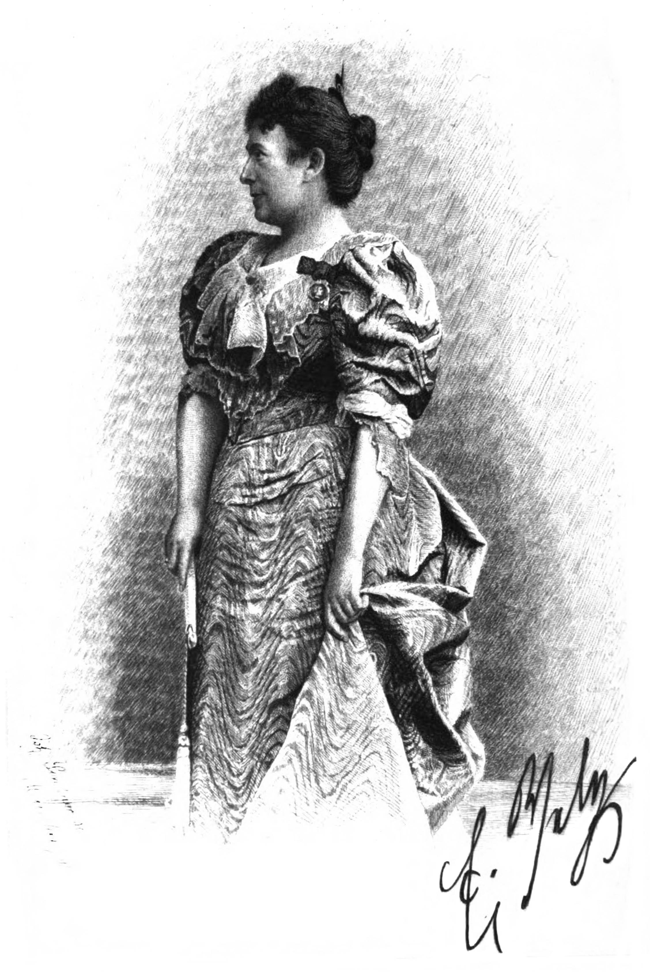 Emma Vely